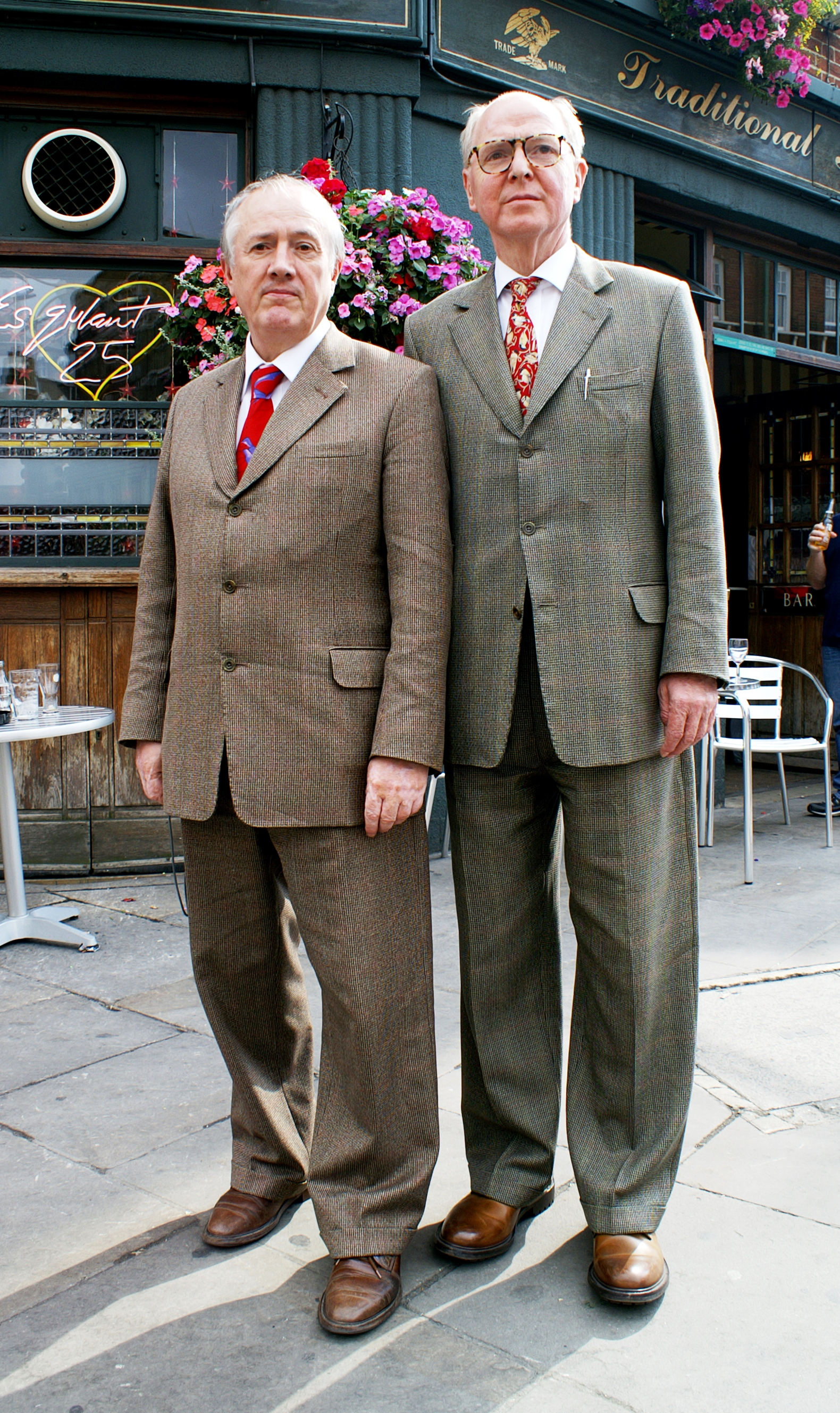 Gilbert & George posing for a shot in Hanbury Street, London, in 2007.